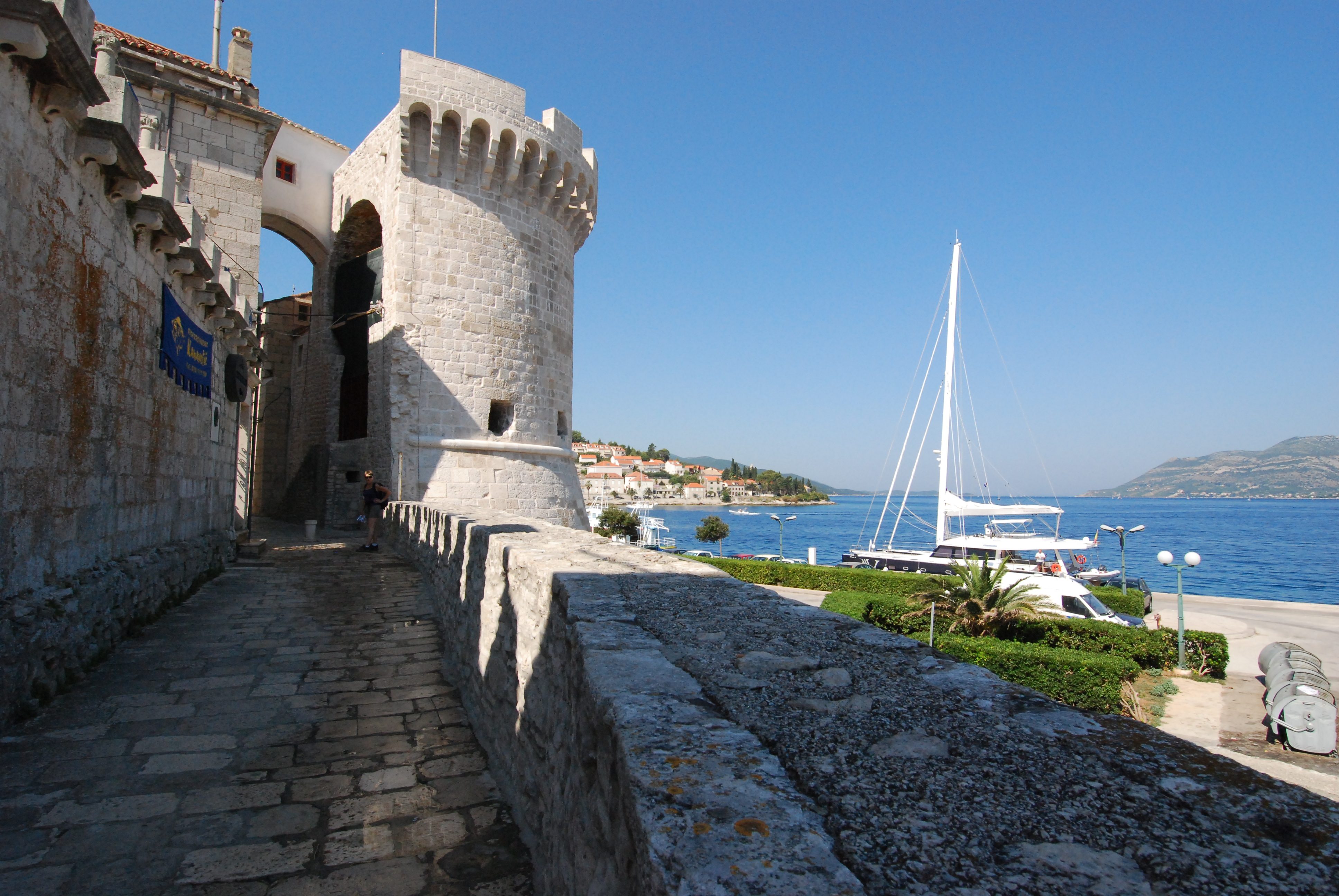 Korčula city wall